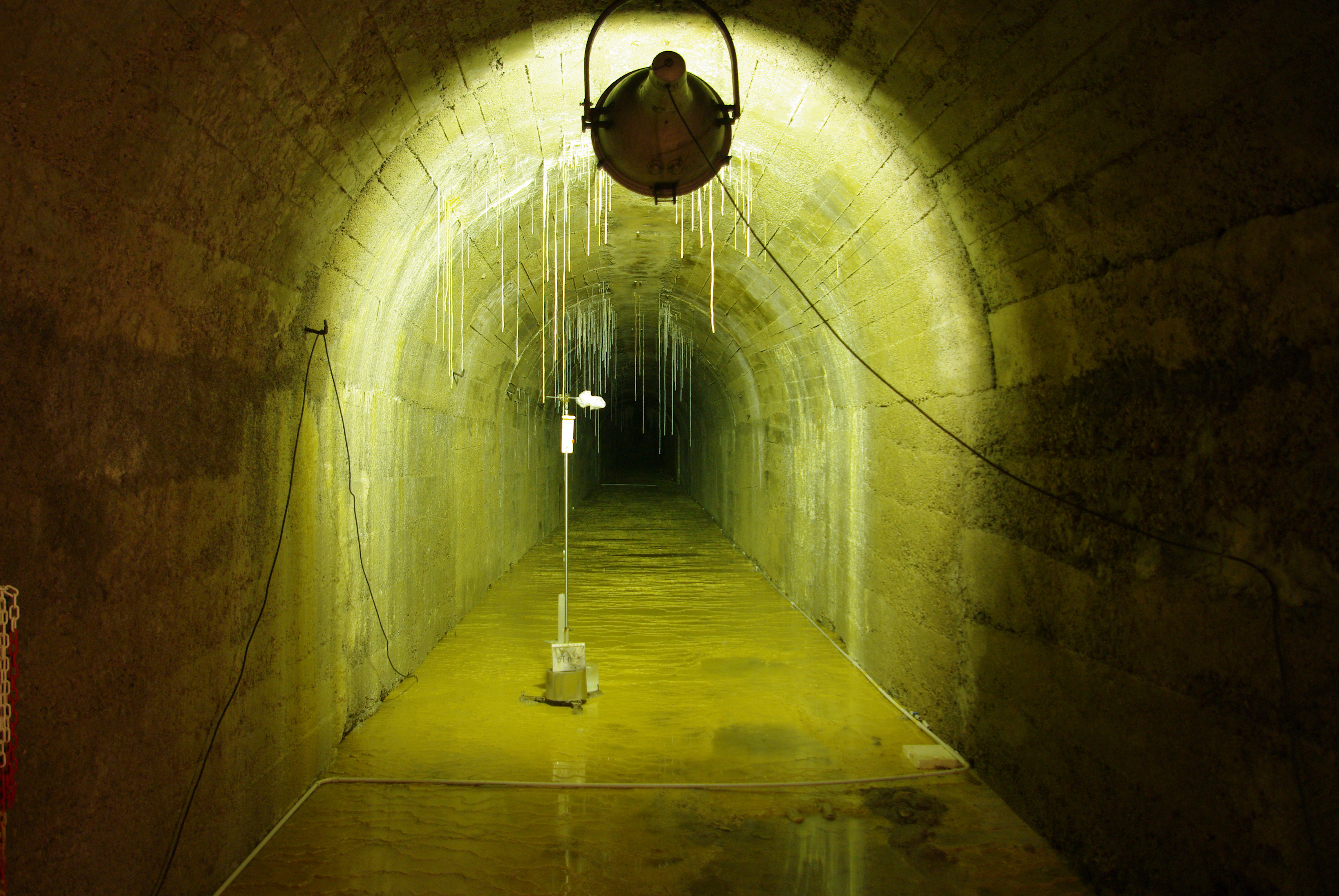 Air-raid shelter in Trieste, the wet part.